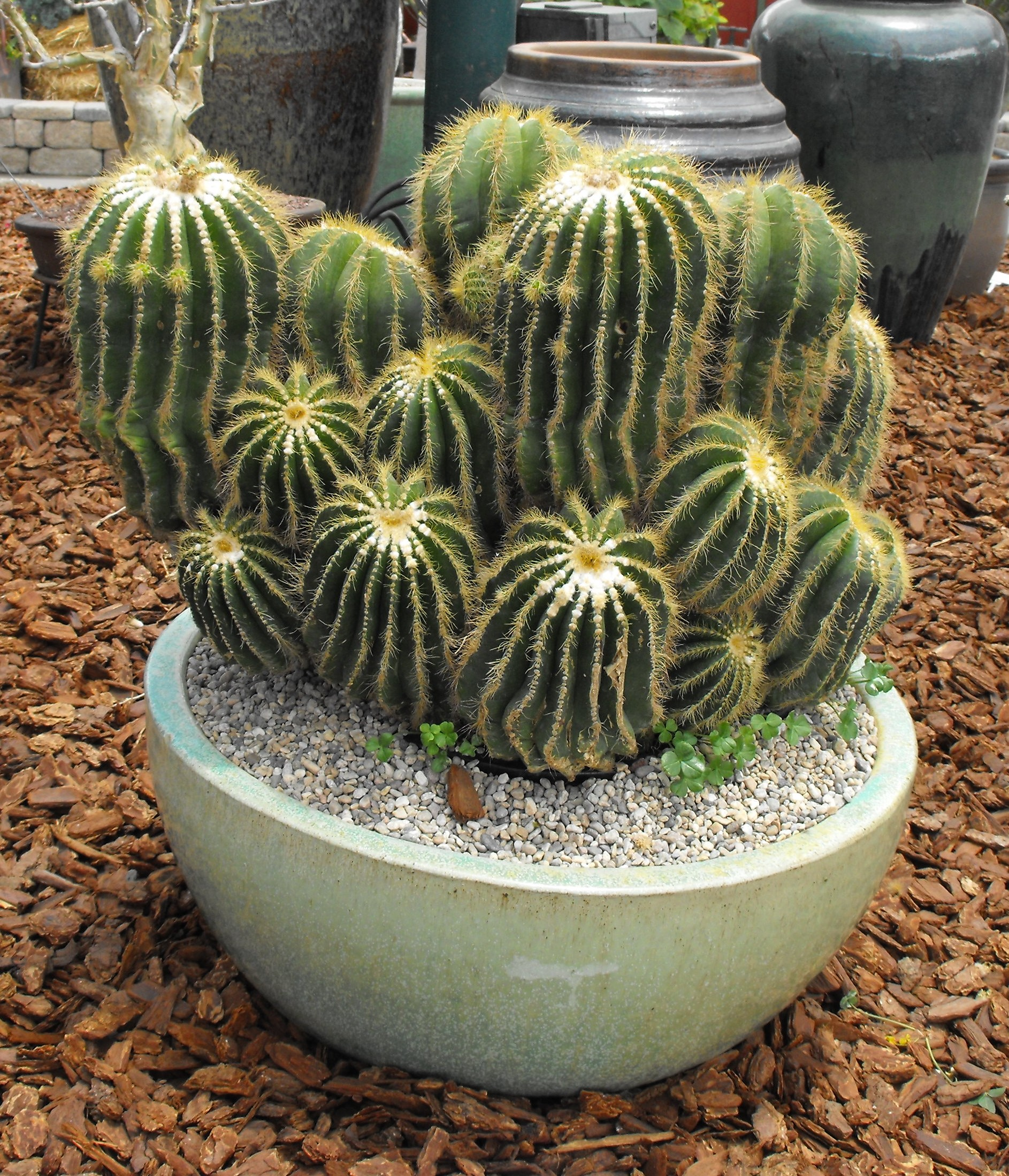 Notocactus warasii on display at the San Diego County Fair, California, USA. Identified by exhibitor's sign.